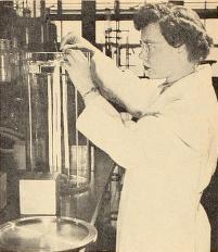 "Chemist Nominated For New Award". USDA EMPLOYEE NEWSLETTER. Washington: U.S. Dept. of Agriculture, Office of Governmental and Public Affairs. XXVIII (3): 2. January 30, 1969. The figure caption reads: "DR. ODETTE SHOTWELL is USDA's nominee for Outstanding Handicapped Federal Employee of the Year, a new Civil Service Commission award." In addition to other information, the article includes: "Polio contracted in her childhood left Dr. Shotwell with a severe, painful paralysis which makes walking in an erect position impossible."